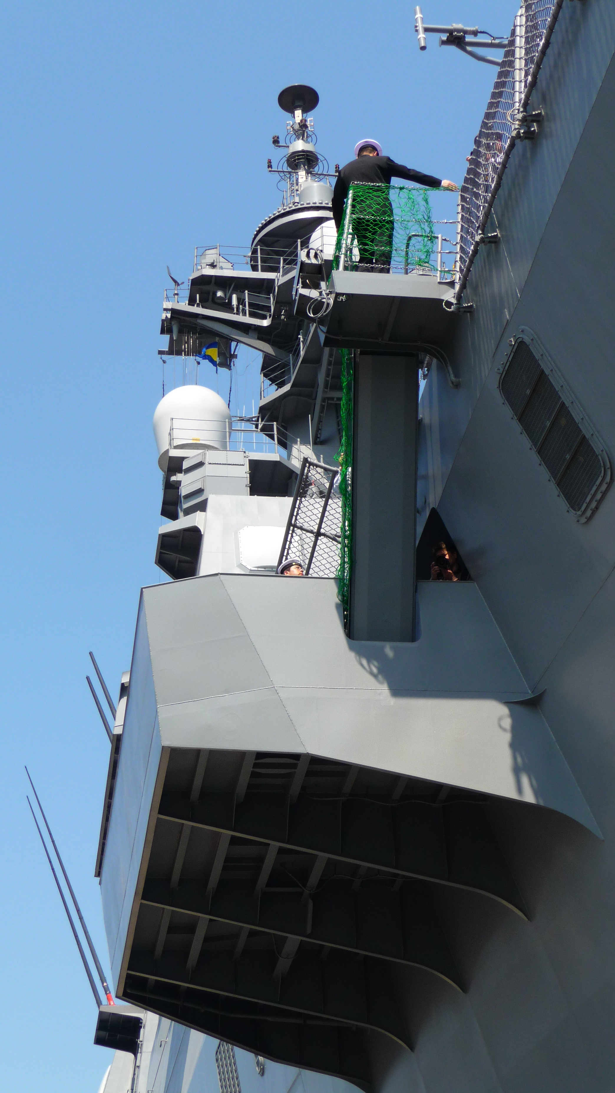 The starboard sponson of JS Hyūga (DDH-181). Panasonic Lumix DMC-TZ5